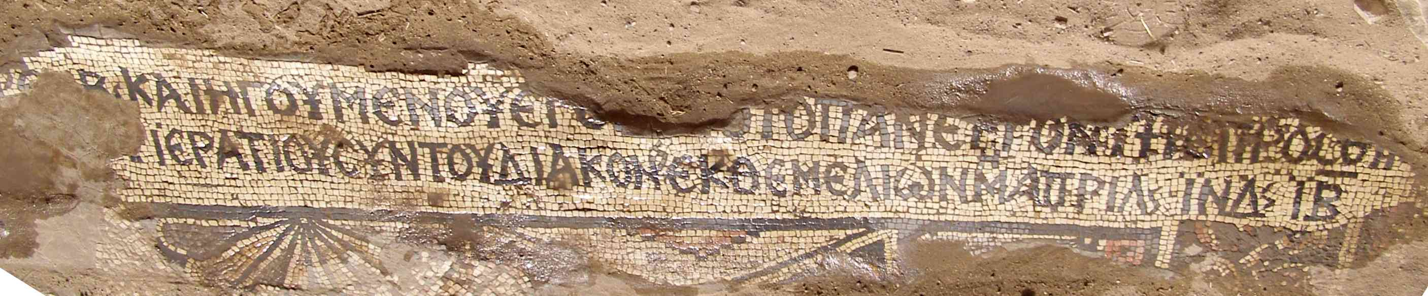 Script in Hurva Hanot, Israel